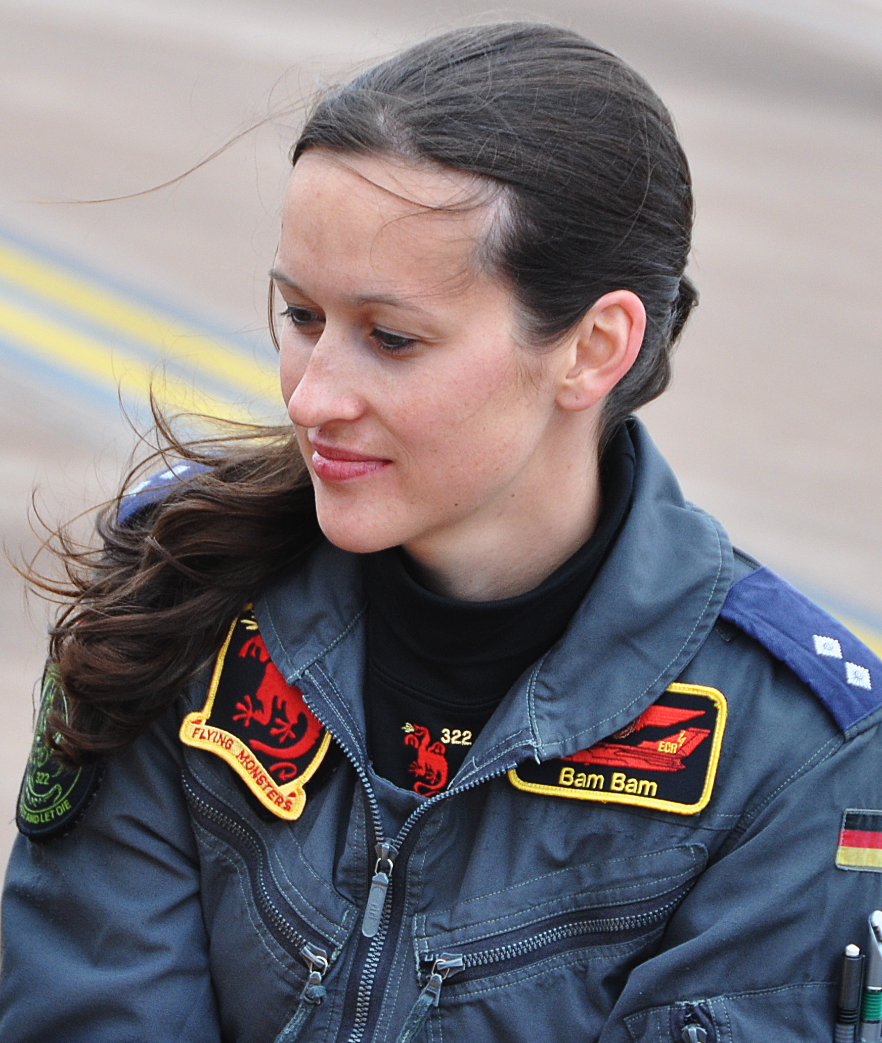 1Lt. Nicola Baumann, an instructor pilot with the 459th Flying Training Squadron, prepares for a PA-200 ECR Tornado flight in Germany in this undated photo. Baumann became just the second female fighter pilot in the history of the German Air Force back in 2007 after completing the Euro-Nato Joint Jet Pilot Training program at Sheppard Air Force Base, Texas.